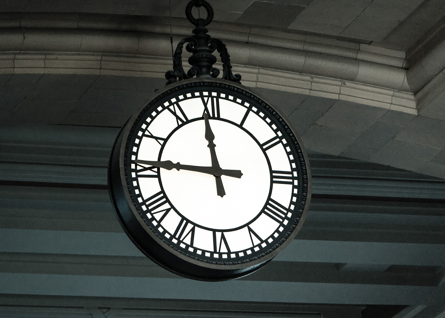 Almost the noon hour at the Union Station in Kansas City, MO.